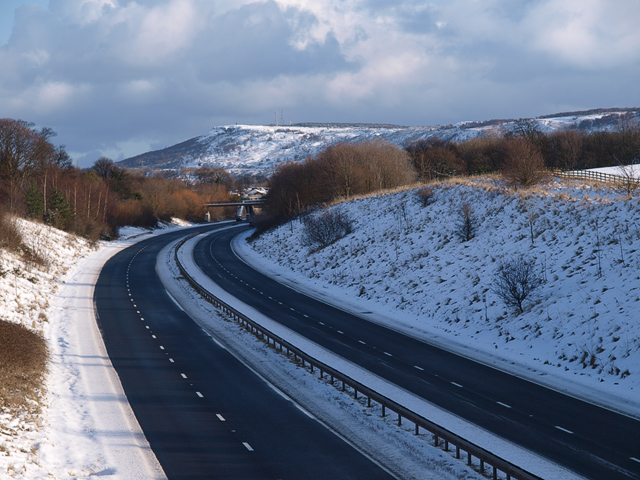 A174 Parkway Eston Hills in the distance